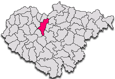 Map Salaj County Romania